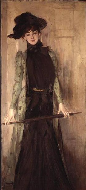 Work by Giovanni Boldini